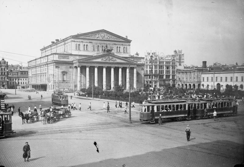 Russland von heute ! Blick auf den Iywerdloff-Platz mit der Staats-Oper in Moskau. Rechts im Hintergrund das von den Sowjets erbaute Staatliche Warenhaus. Information added by Wikimedia users.correction by User:NVO. Description says "Soviet-built State Department Store". In fact, the old building of the TsUM (then Muir & Mirrielees) was built before World War I.